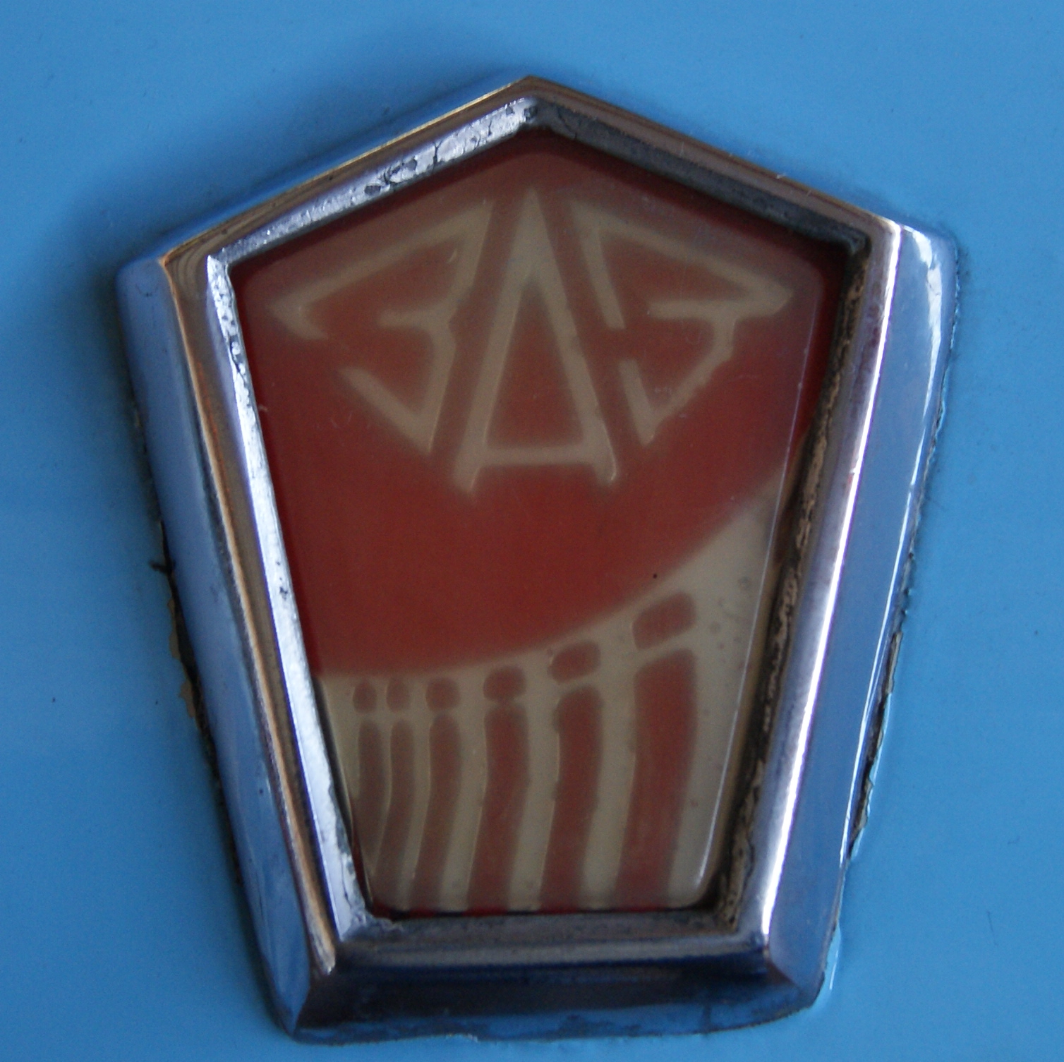 ZAZ logo on a ZAZ-966 (showing a hydroelectrostation on the Dneper river).